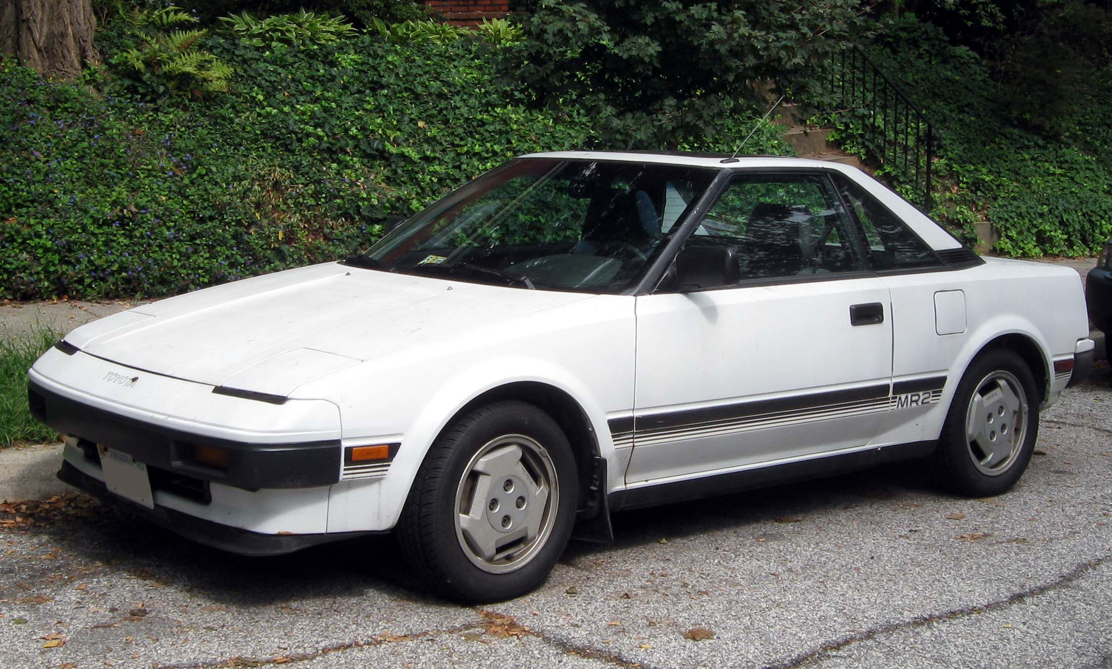 Toyota MR2 photographed in Washington, D.C., USA.